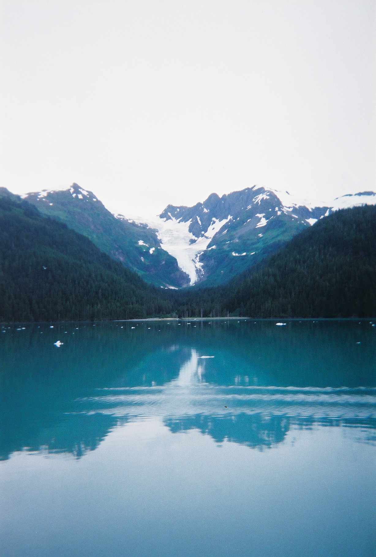 Photo of Prince William Sound from a boat looking towards Columbia Glacier, southern Alaska. Uploaded by photographer.